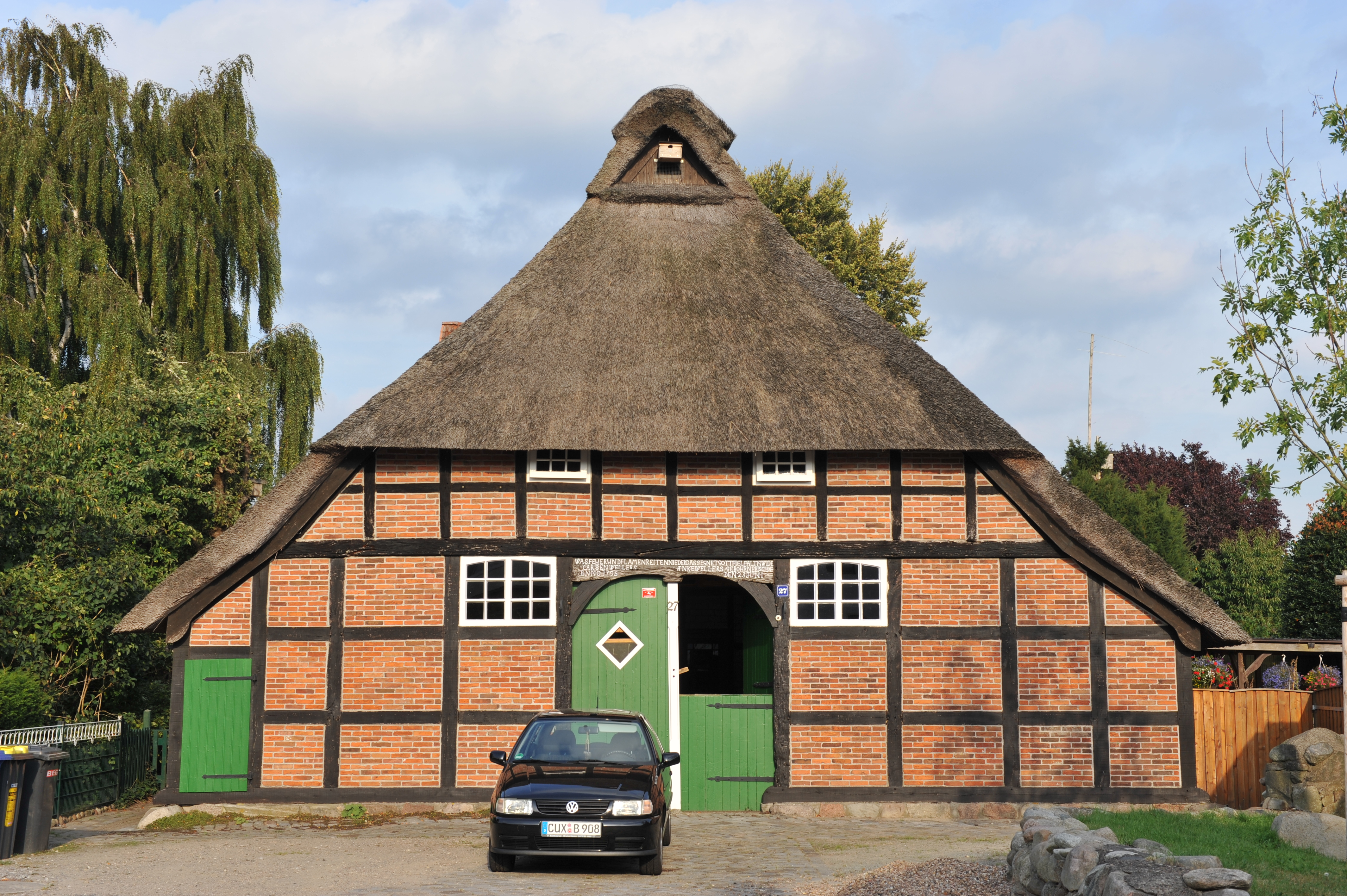 Historical building in Bremerhaven, northern Germany